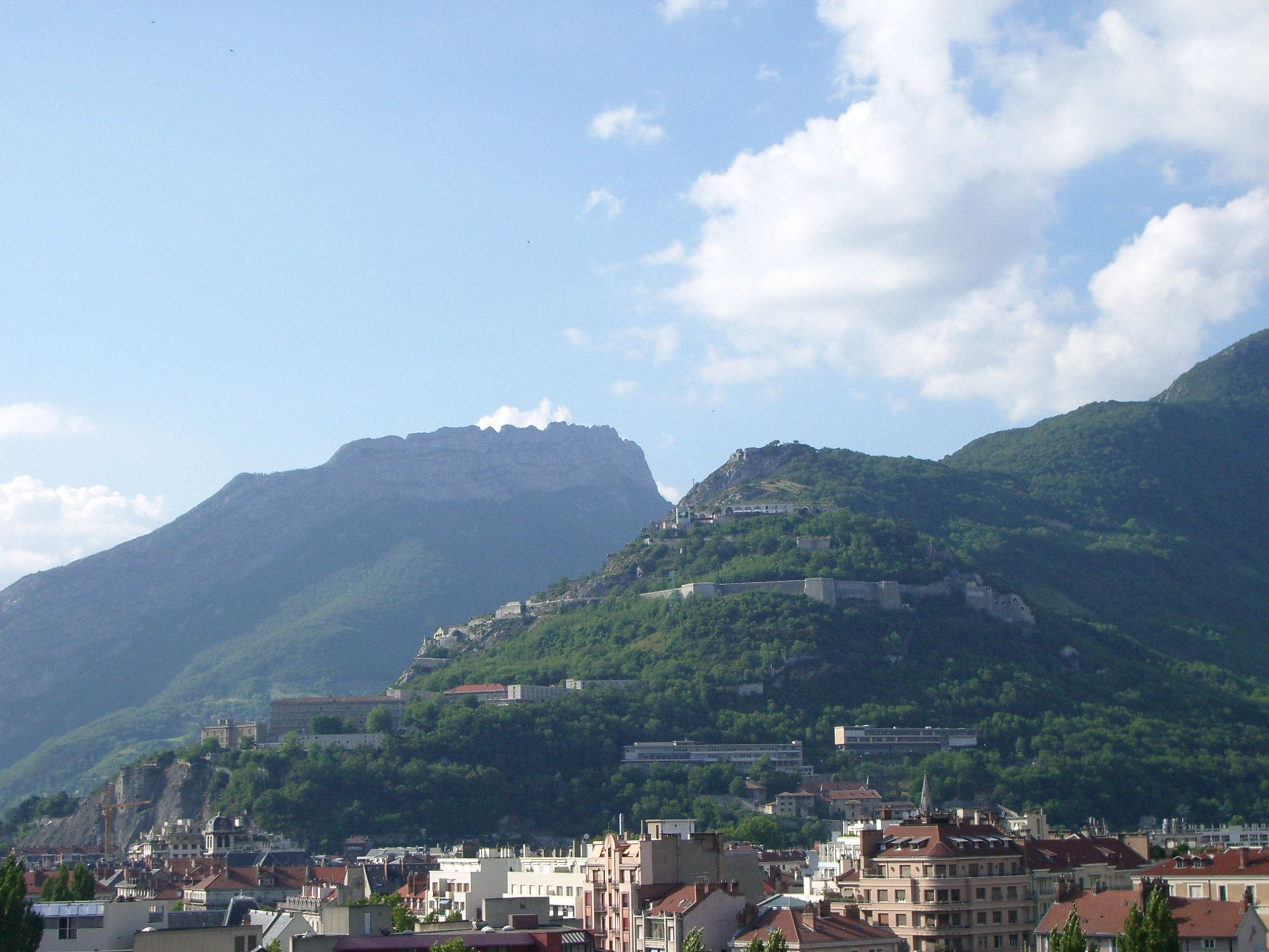 La Bastille (Grenoble) from the city